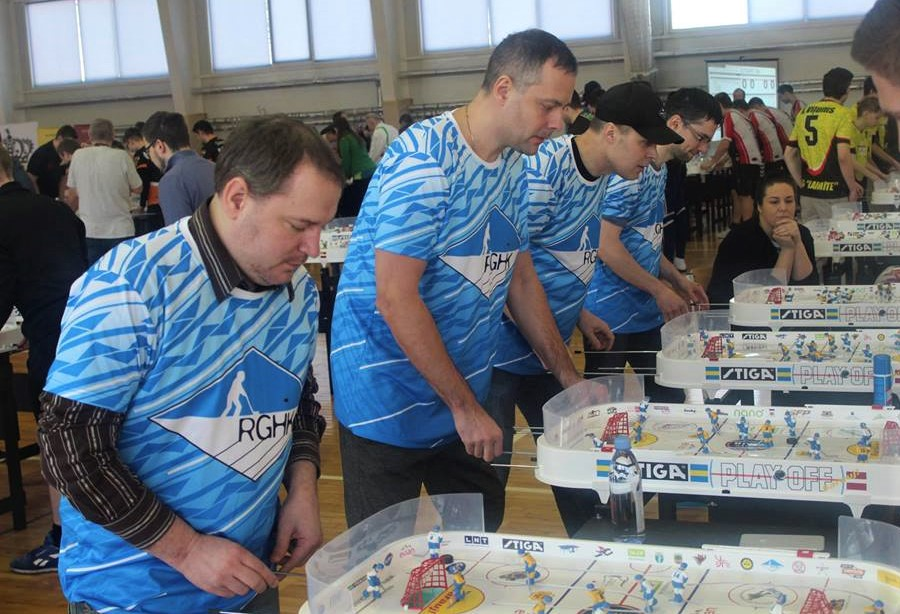 From left - Sternāts, Mihejevs, Skarainis, Faļkenšteins. Sitting - Faļkenšteina.